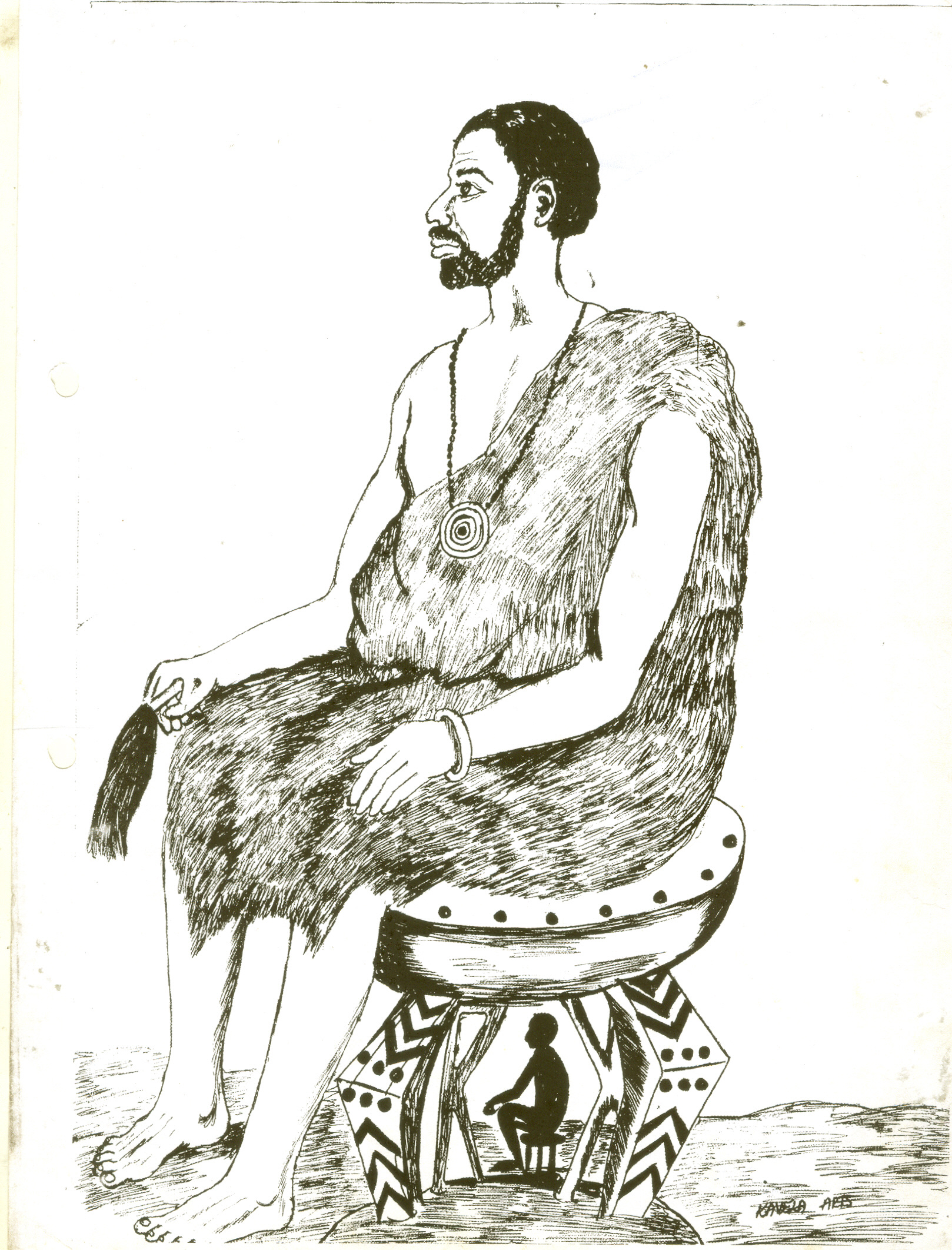 King Mwene Mbandu Kapova I was the 21st monarch of Mbundaland in the southeast of present-day Angola before the Portuguese colonization of the Mbunda territory at the beginning of the 20th Century. He became a key monarch resisting against Portuguese occupation of Moxico, which resulted in large-scale abductions by the Portuguese of many of those resisting their occupation